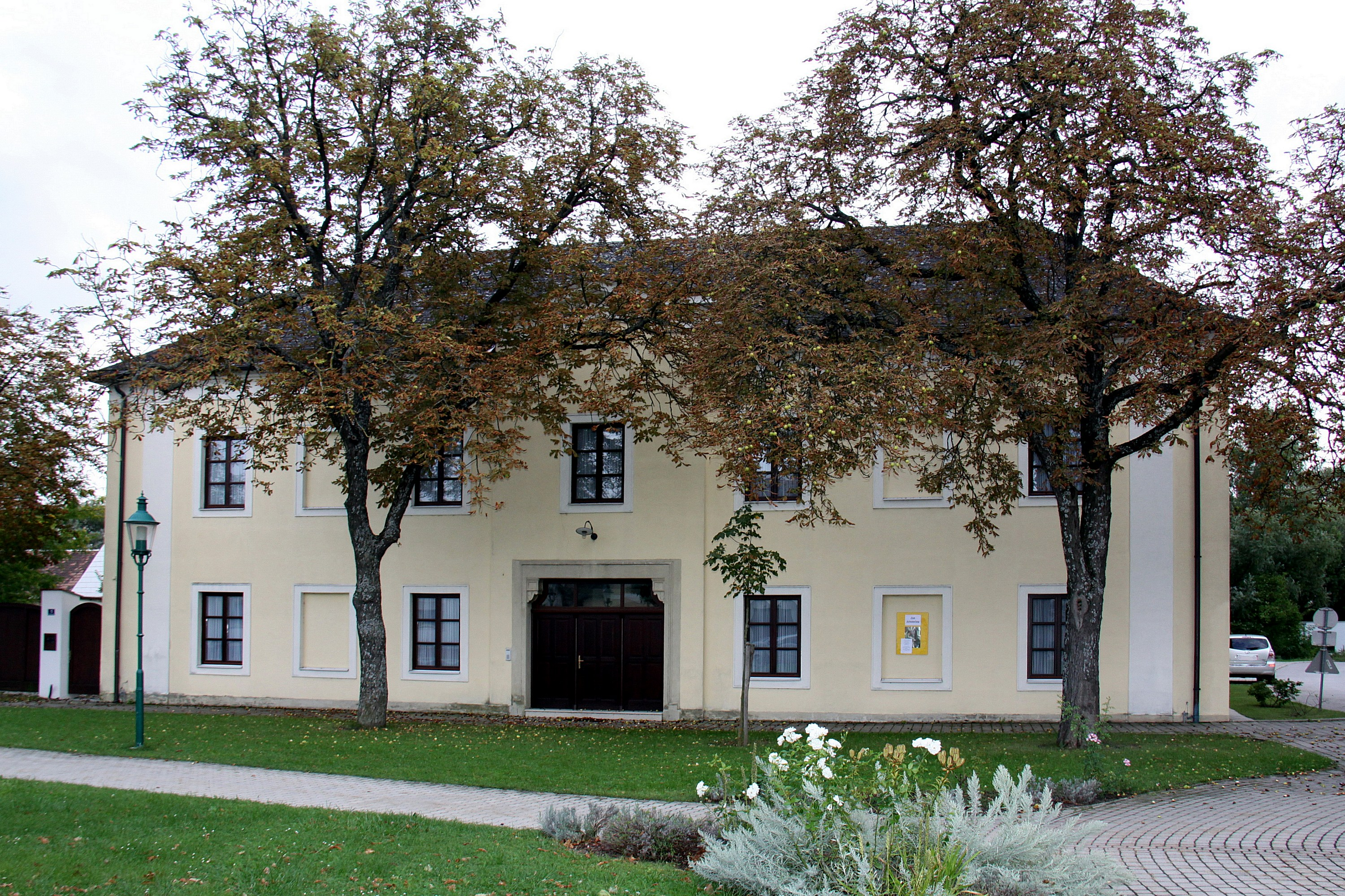 Ministry house - Wulkaprodersdorf. Object location47° 47′ 36.38″ N, 16° 29′ 42.57″ E